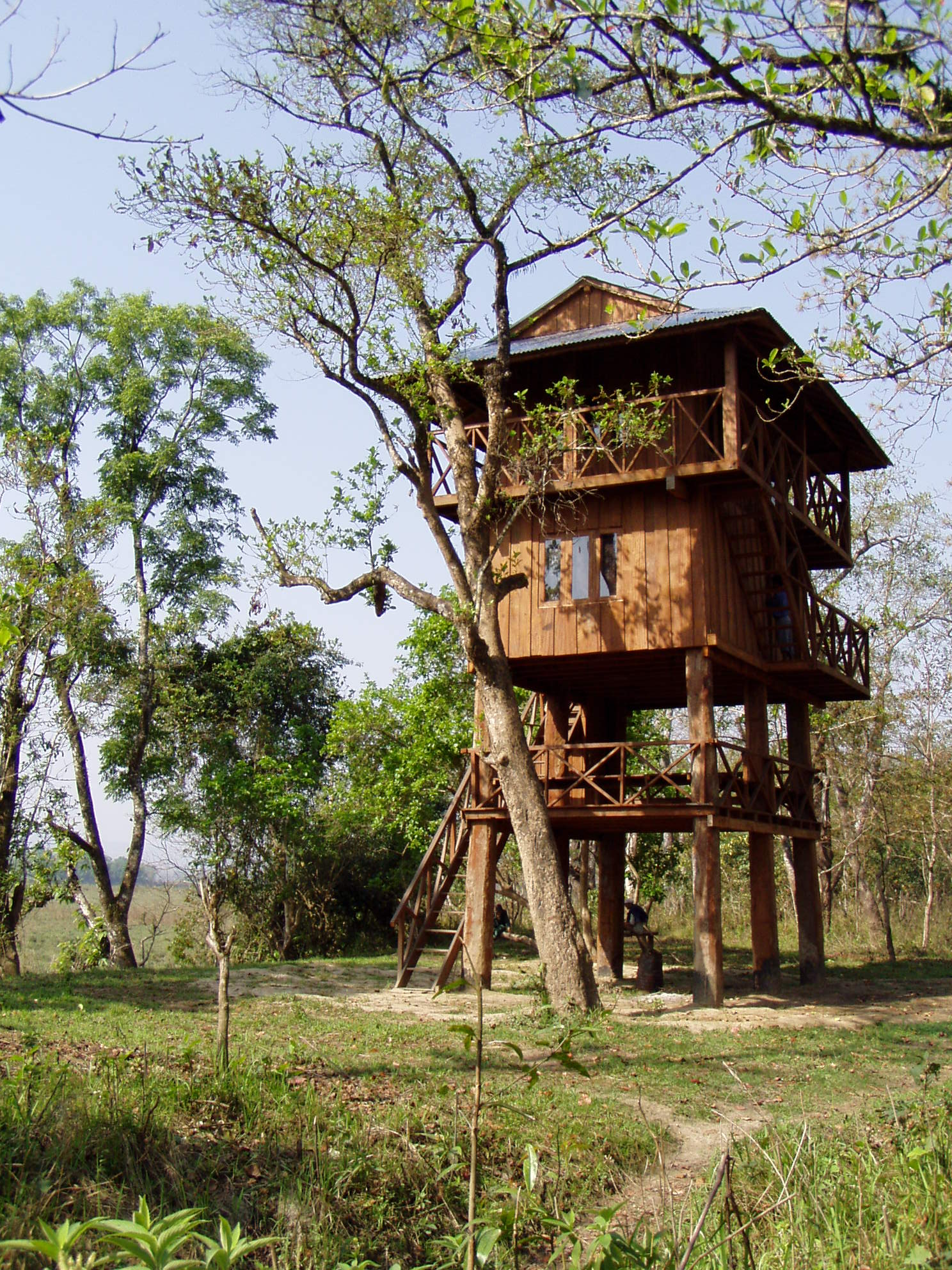 Bungalow-Tower for overnight in Chitwan National Park (Nepal).